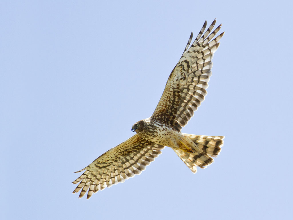 A female Northern Harrier Circus hudsonius flying in Alturas, California, USA.